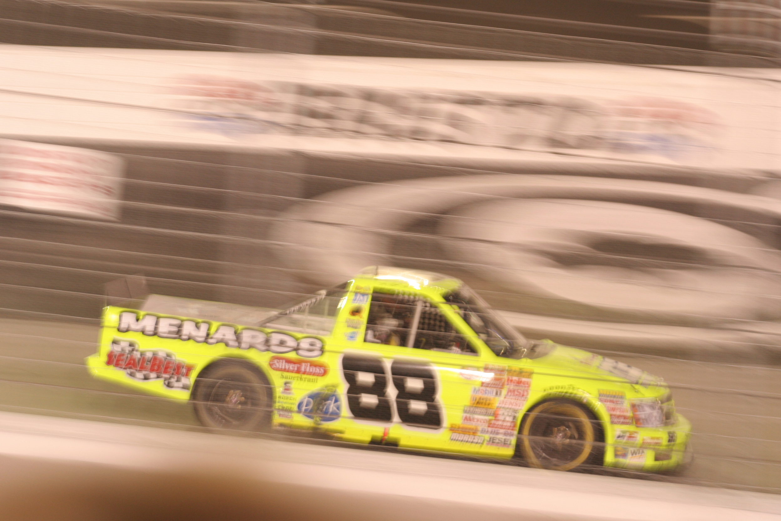 The truck of NASCAR Craftsman Truck Series driver Matt Crafton at the August 2007 Bristol raceMatt Crafton